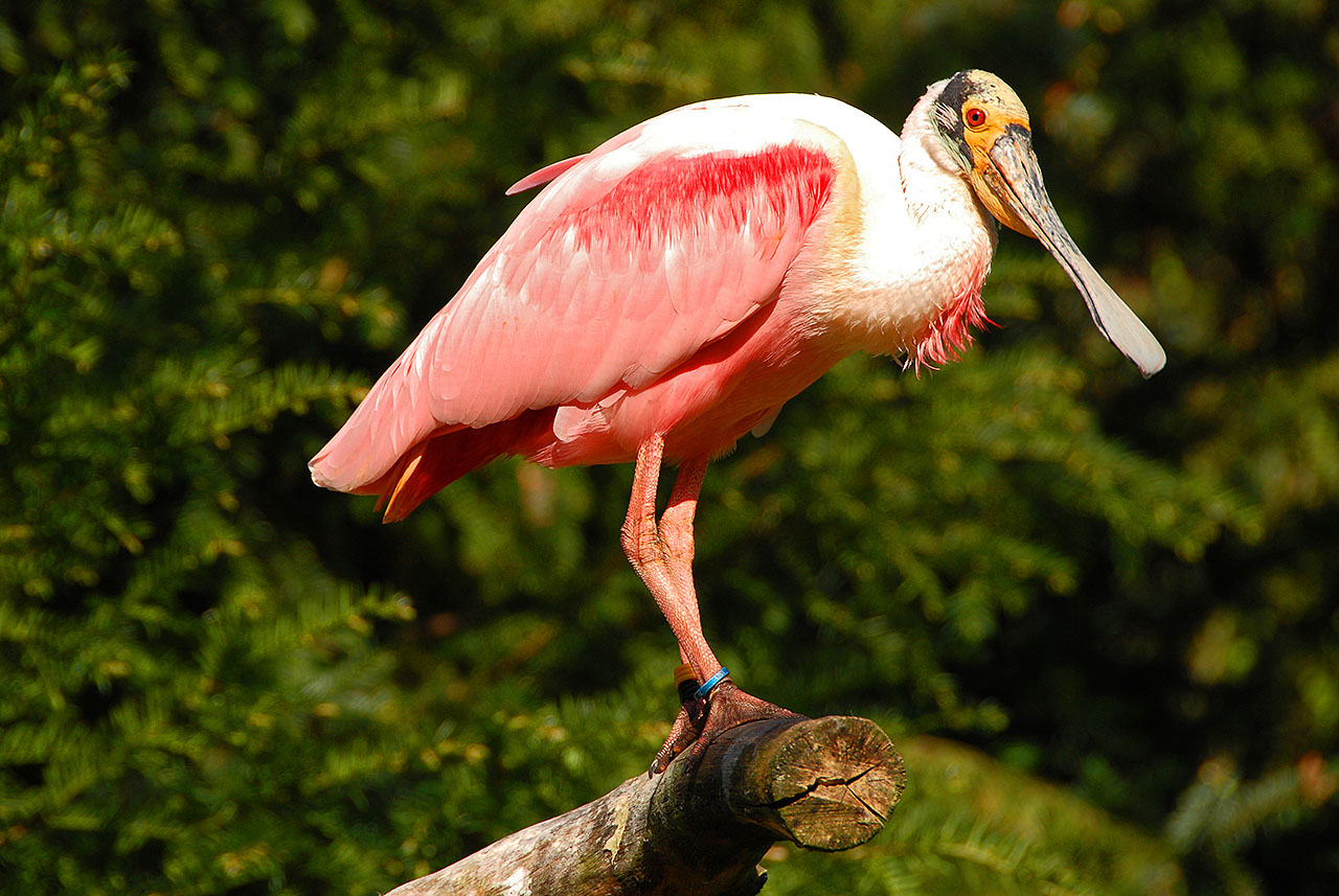 Roseate Spoonbill at Walsrode Bird Park, Germany.